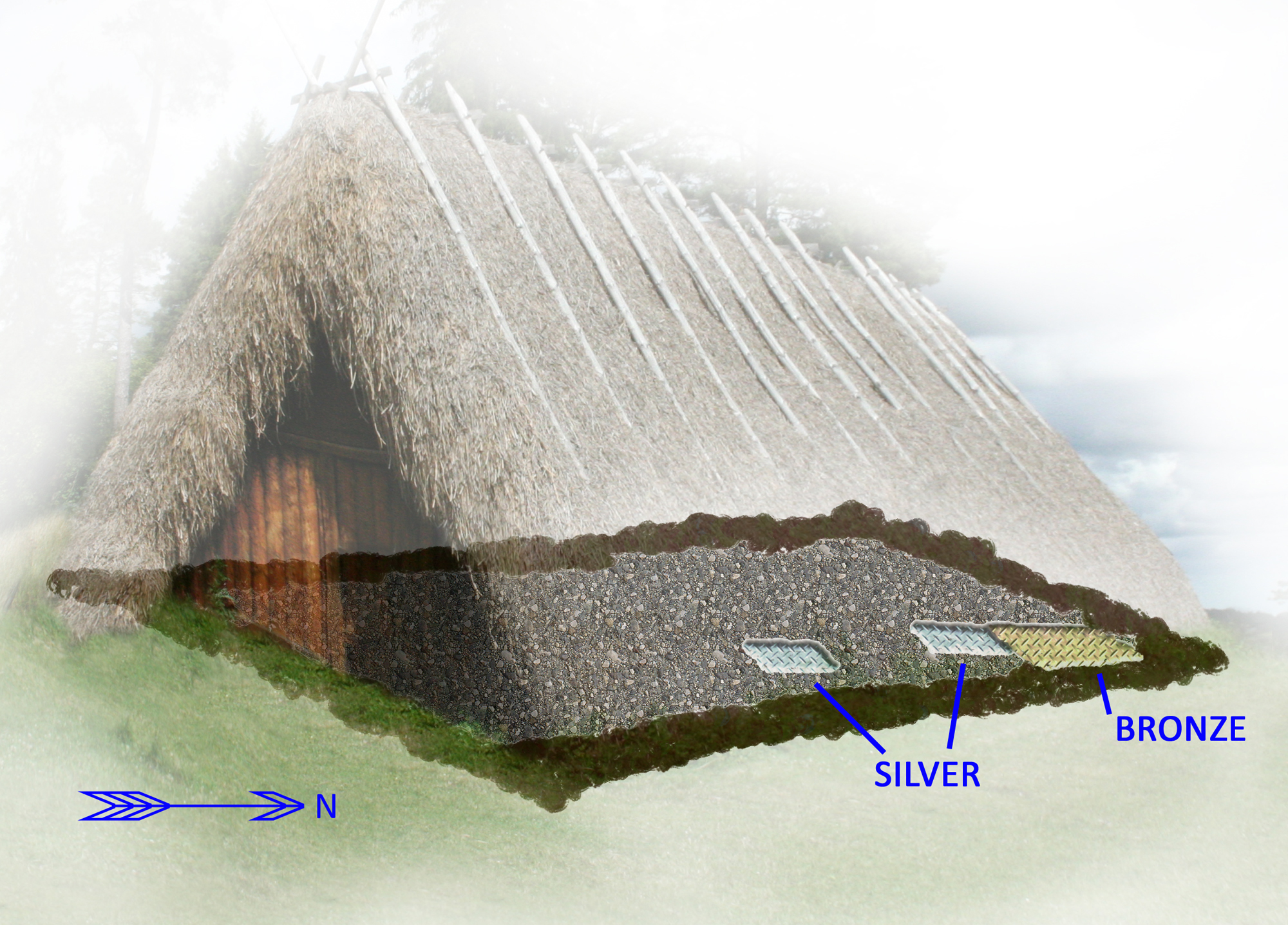 A representation of the Viking house where the three caches of the Spillings hoard were found.